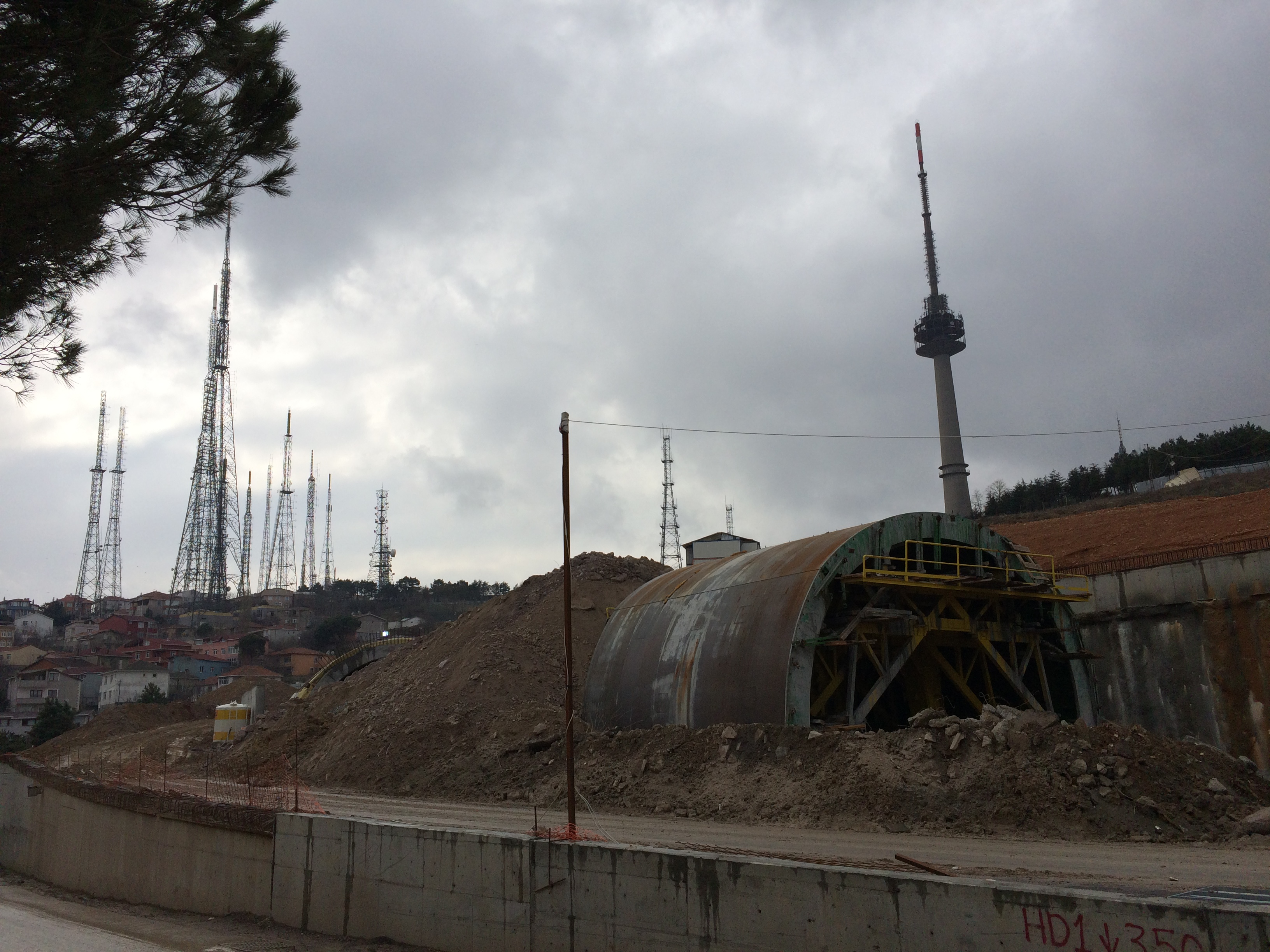 Çamlıca Mosque tunnel construction & Çamlıca TRT Television Tower